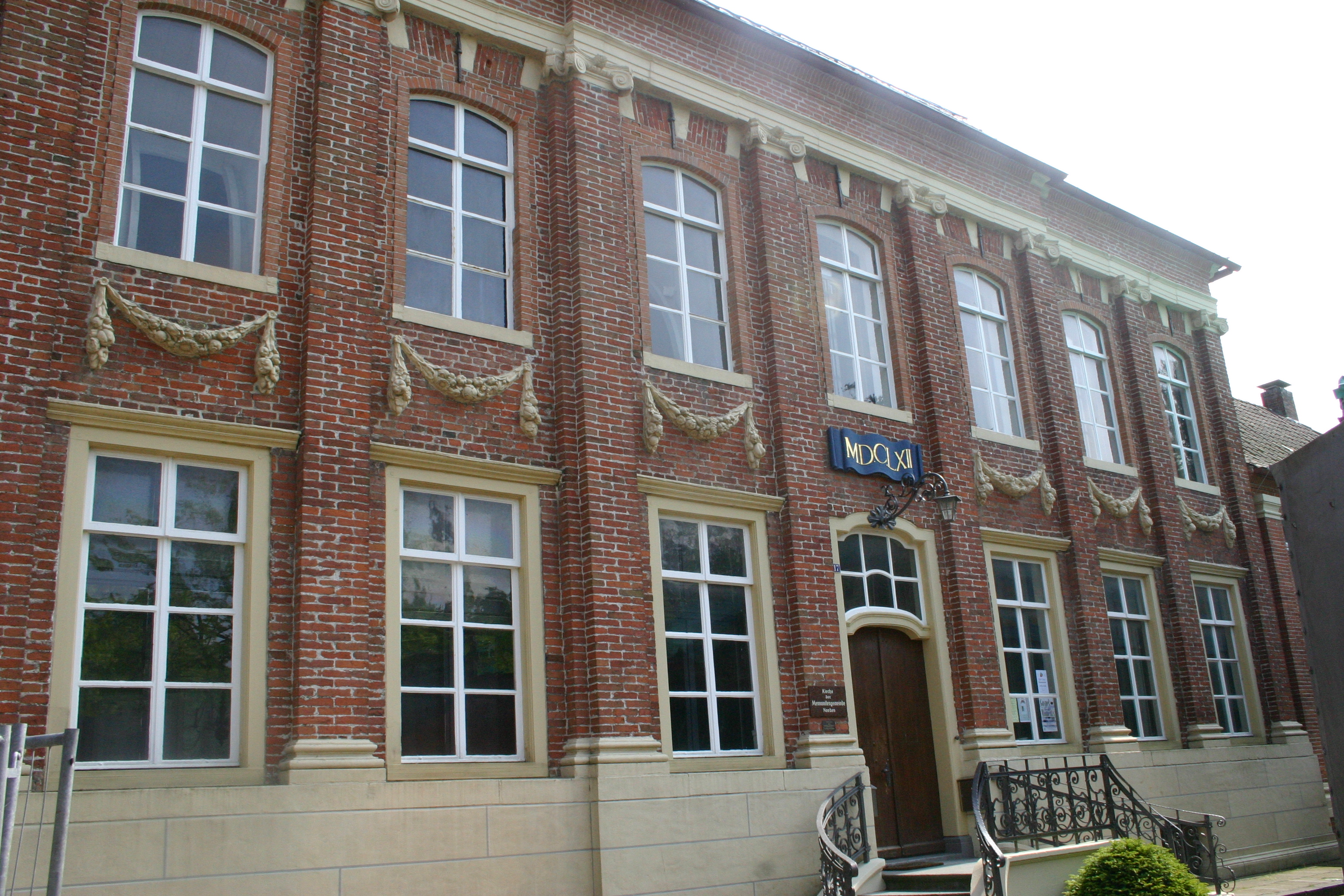 Historic church (mennonnite) in Norden, district of Aurich, East Frisia, Germany